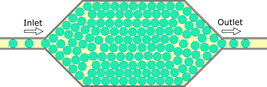 A droplet delay technique for microfluidic devices.